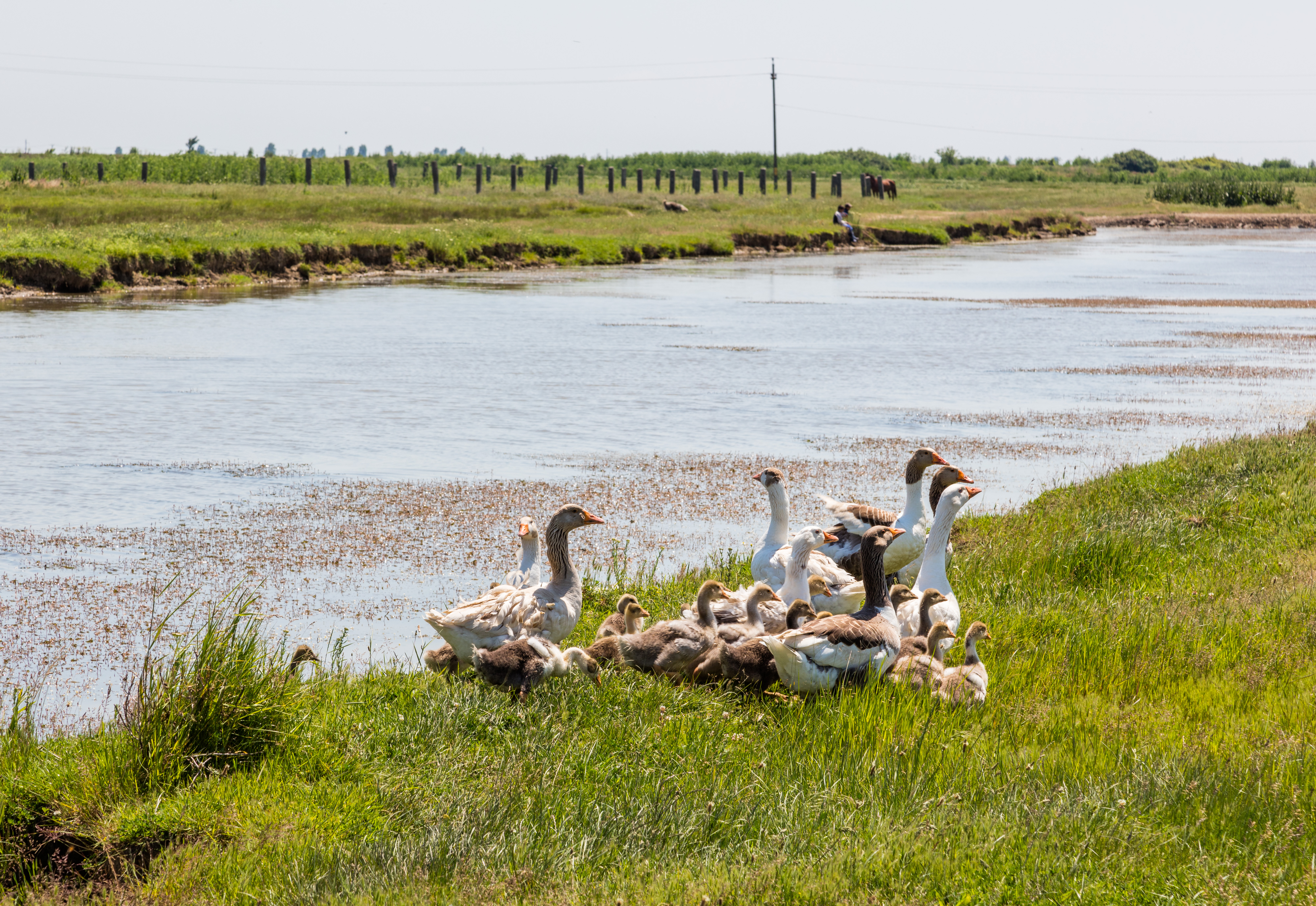 Greylag Goose (Anser anser) nexto to the Bruzau river, Surdila Greci, Romania